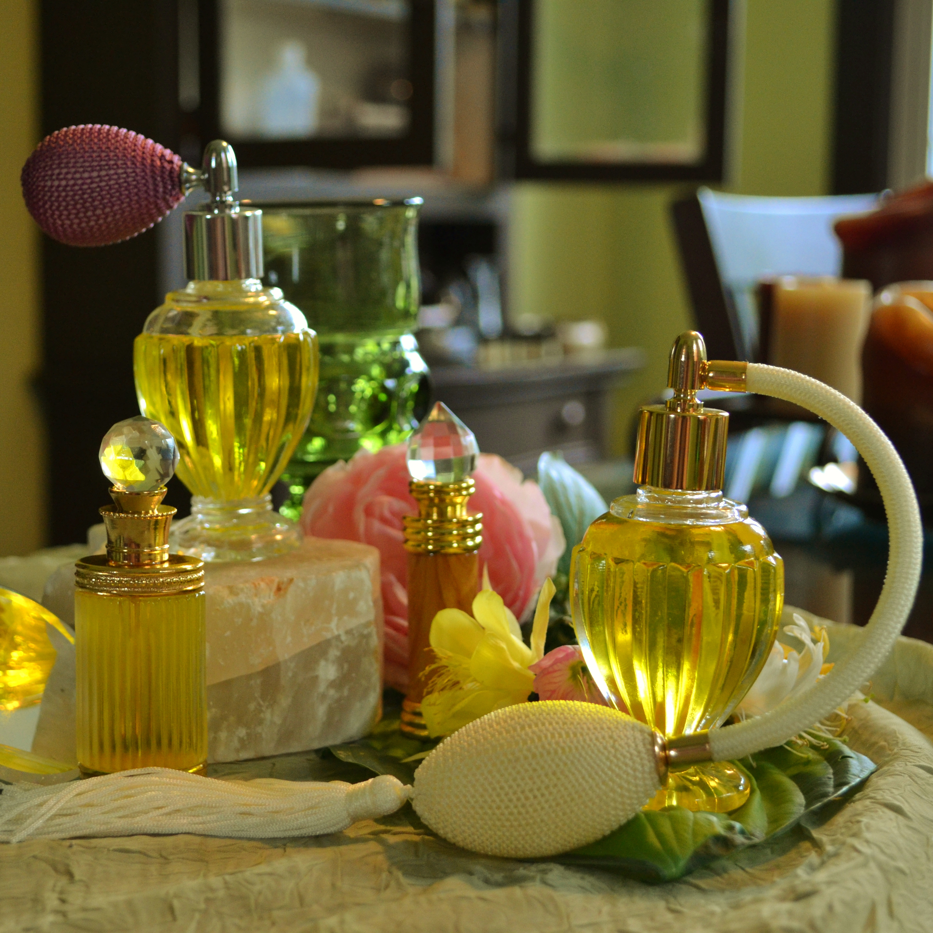 A collection of glass perfume bottles